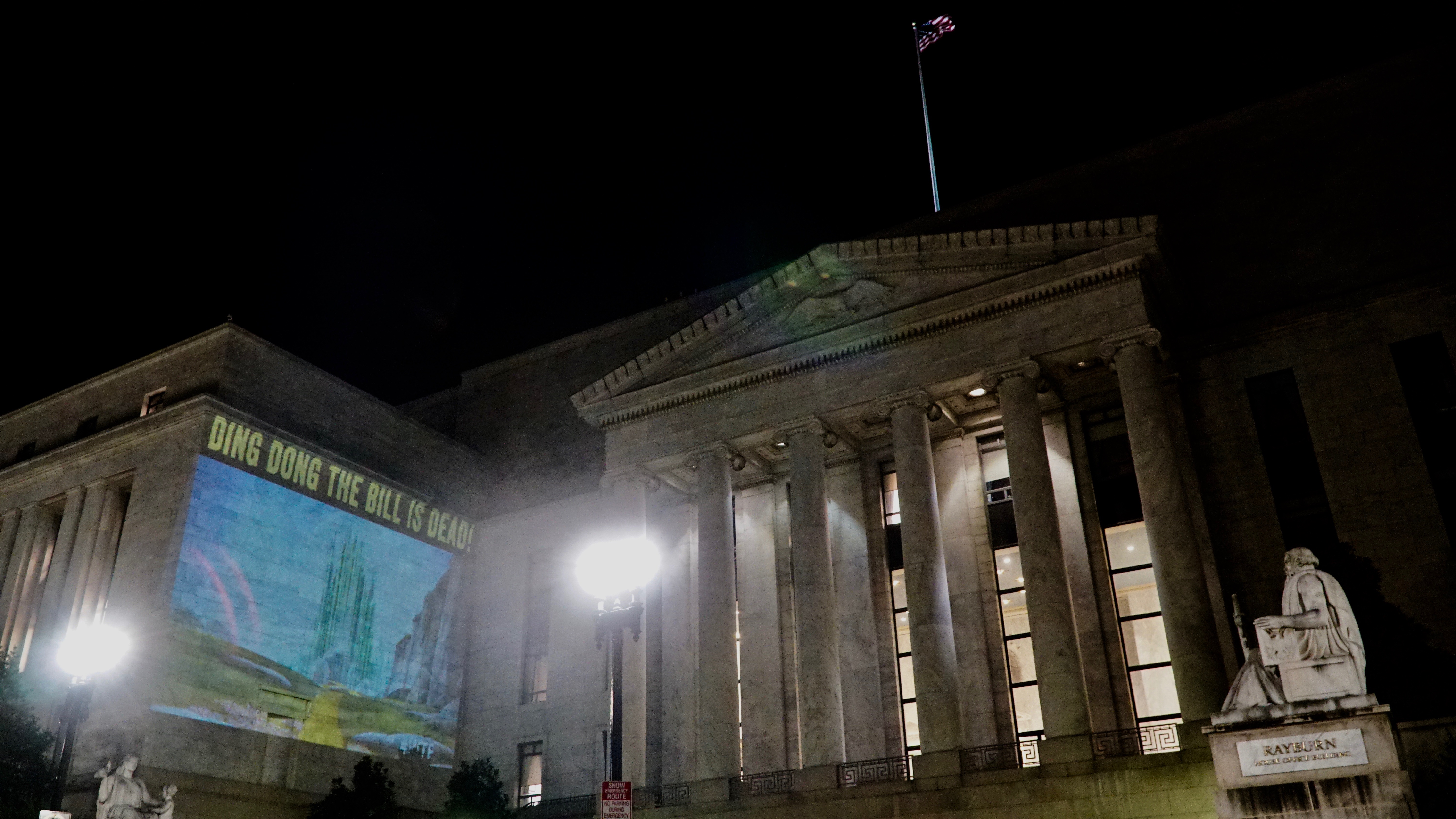 WTF created this 70 ft projection to call on Congress to Protect the Affordable Care Act.